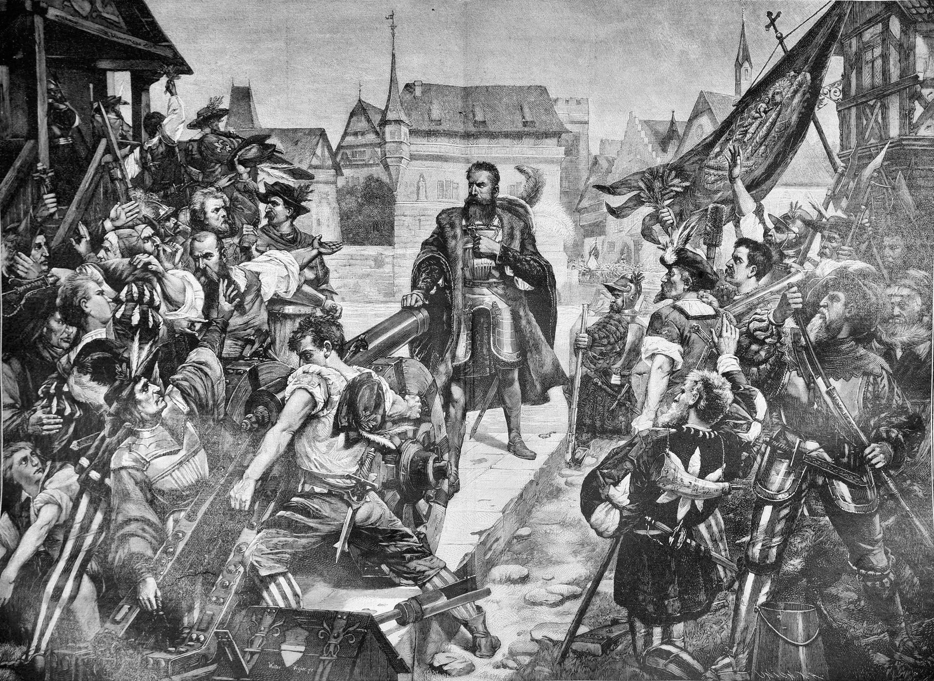 caption: "Schultheiß Wengi verhindert den Relegionskrieg in Solothurn 1533. Nach einem Gemälde von Walter von Vigier."